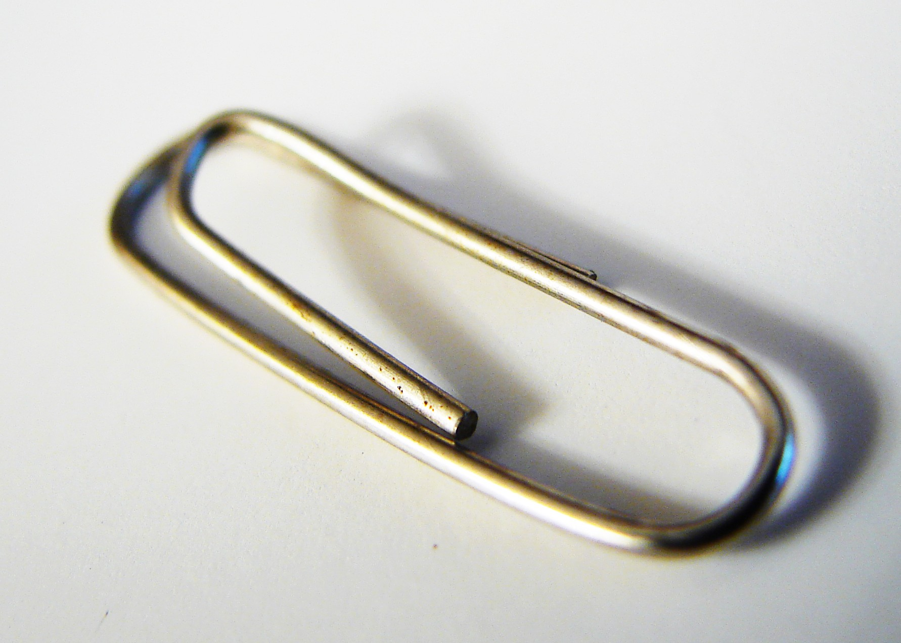 Photo of a small white paper clip.